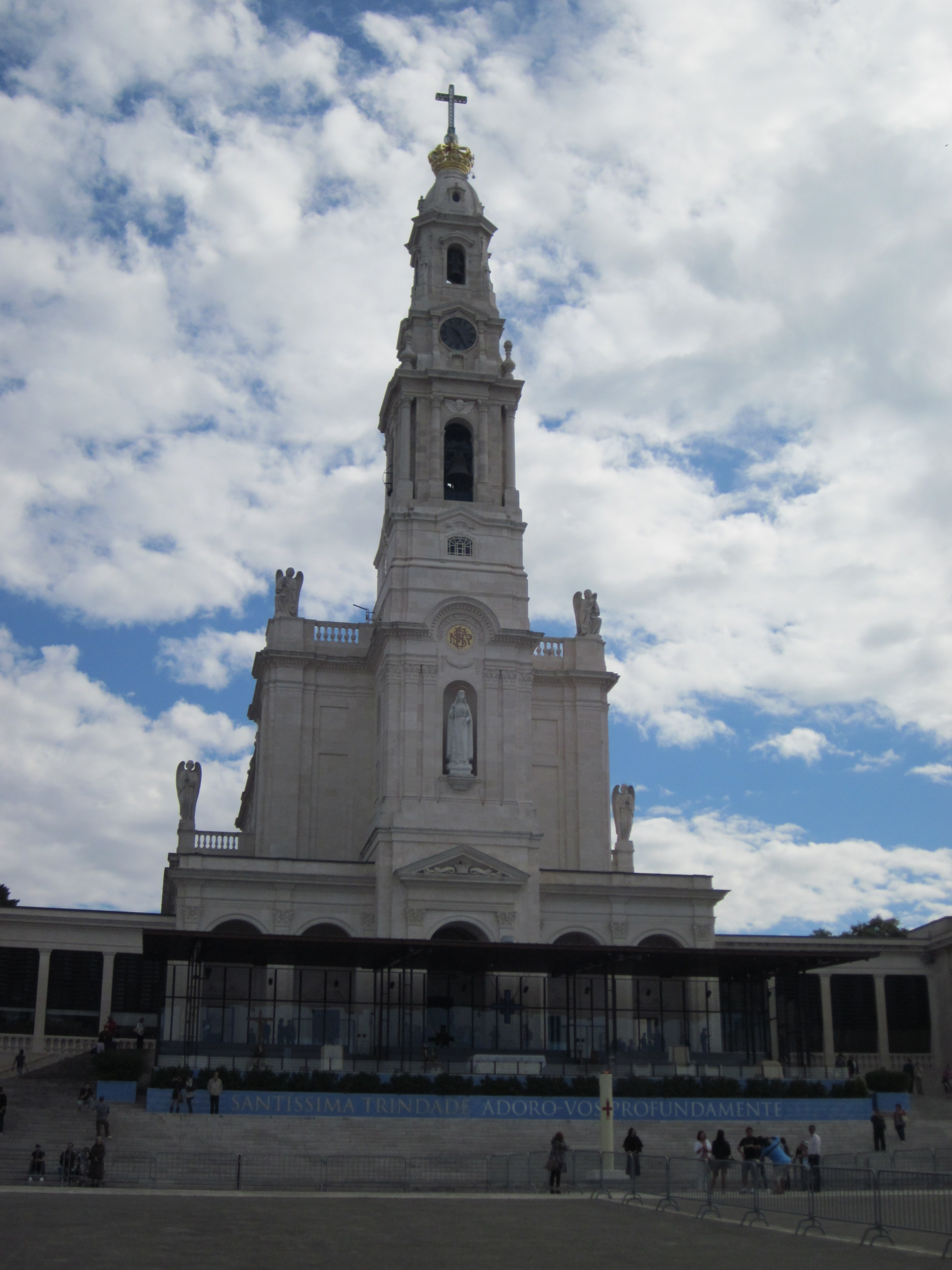 Basilica of Our Lady of the Rosary in Fatima, Ourém, Portugal.